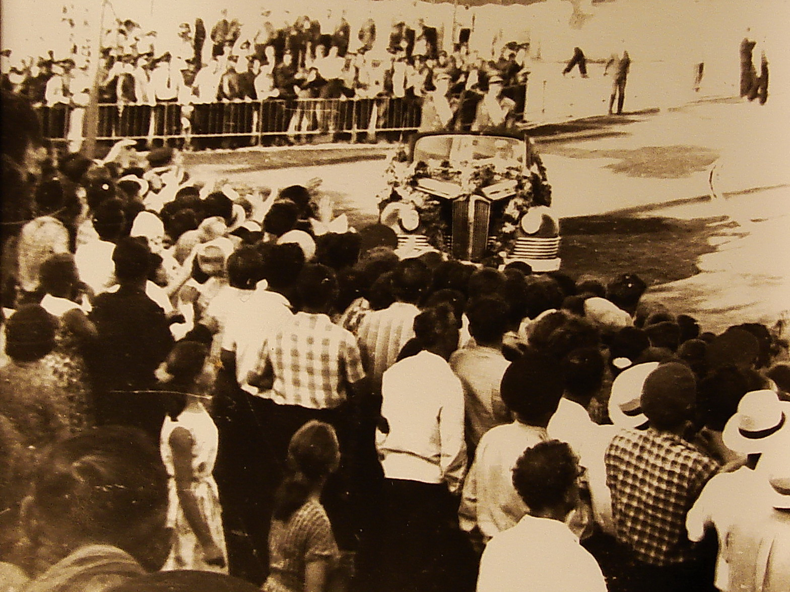 Russia, Vologda, Pavel Belyayev and Alexey Leonov (1965 year)